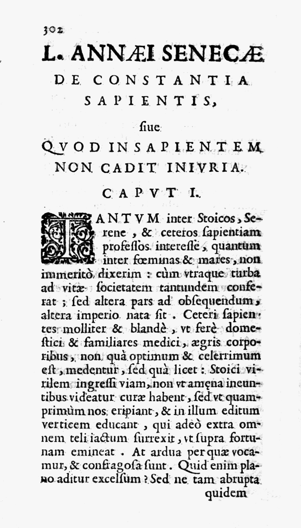 Page 302 of L. Annæi Senecæ philosophi Opera: tribus tomis distincta. Tomus 1. (1643). Published by Francesco Baba. (WorldCat)